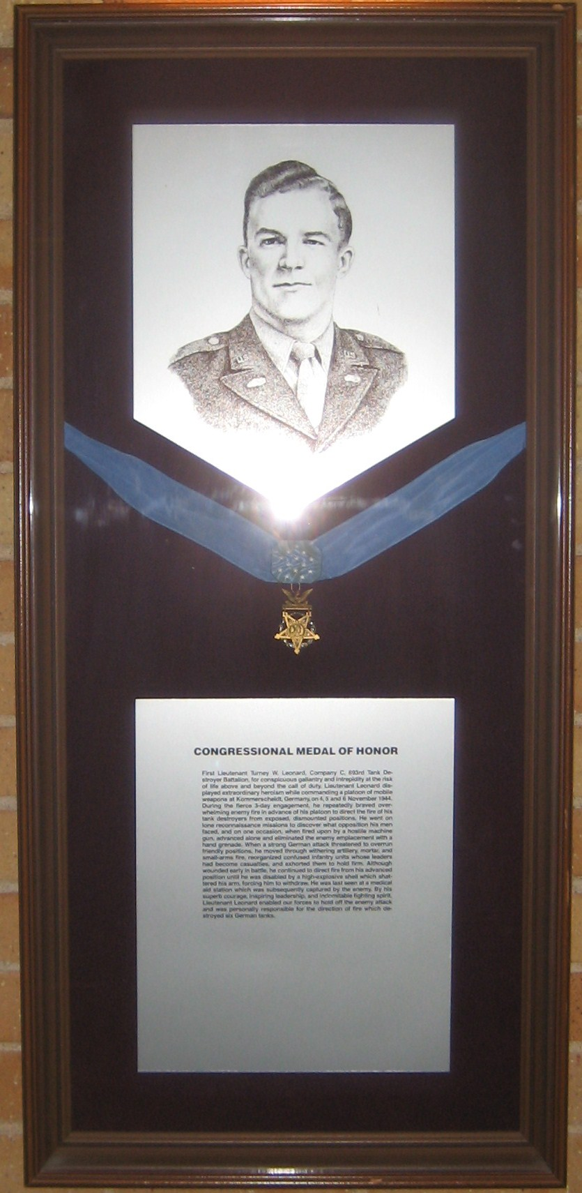 An image of Turney W. Leonard, a specimen Medal of Honor and his citation on display at the Memorial Student Center at Texas A&M University